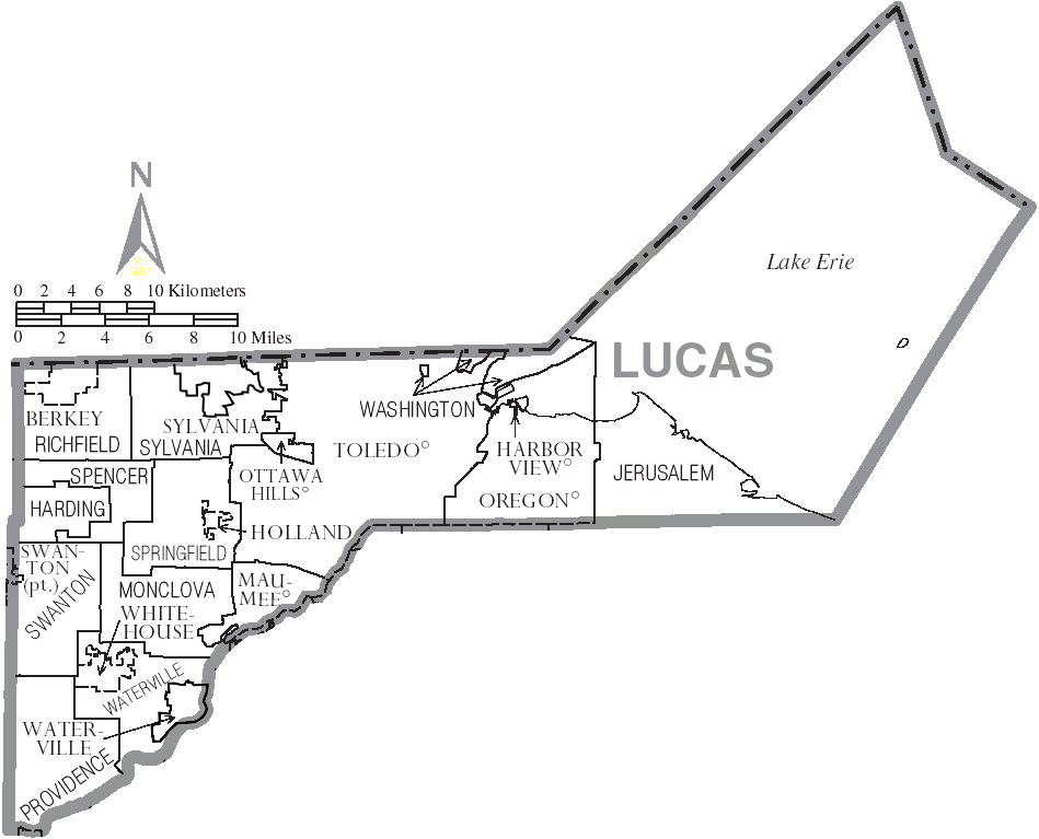 Map of Lucas County, Ohio, United States with township and municipal boundaries